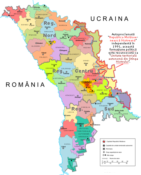 Administrative map of Moldova